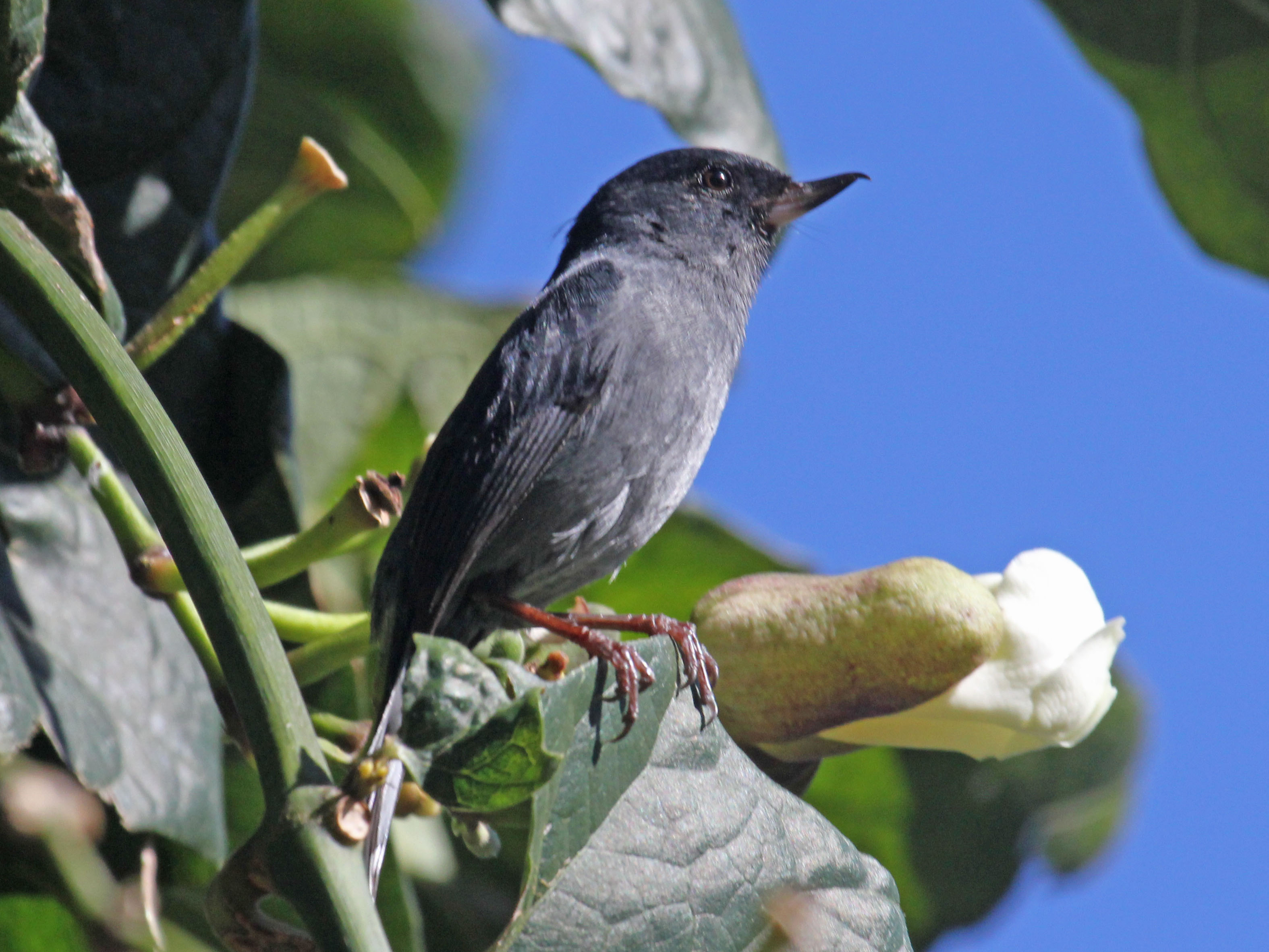 Male Slaty Flowerpiercer (Diglossa cyanea) - Boquette, Panama